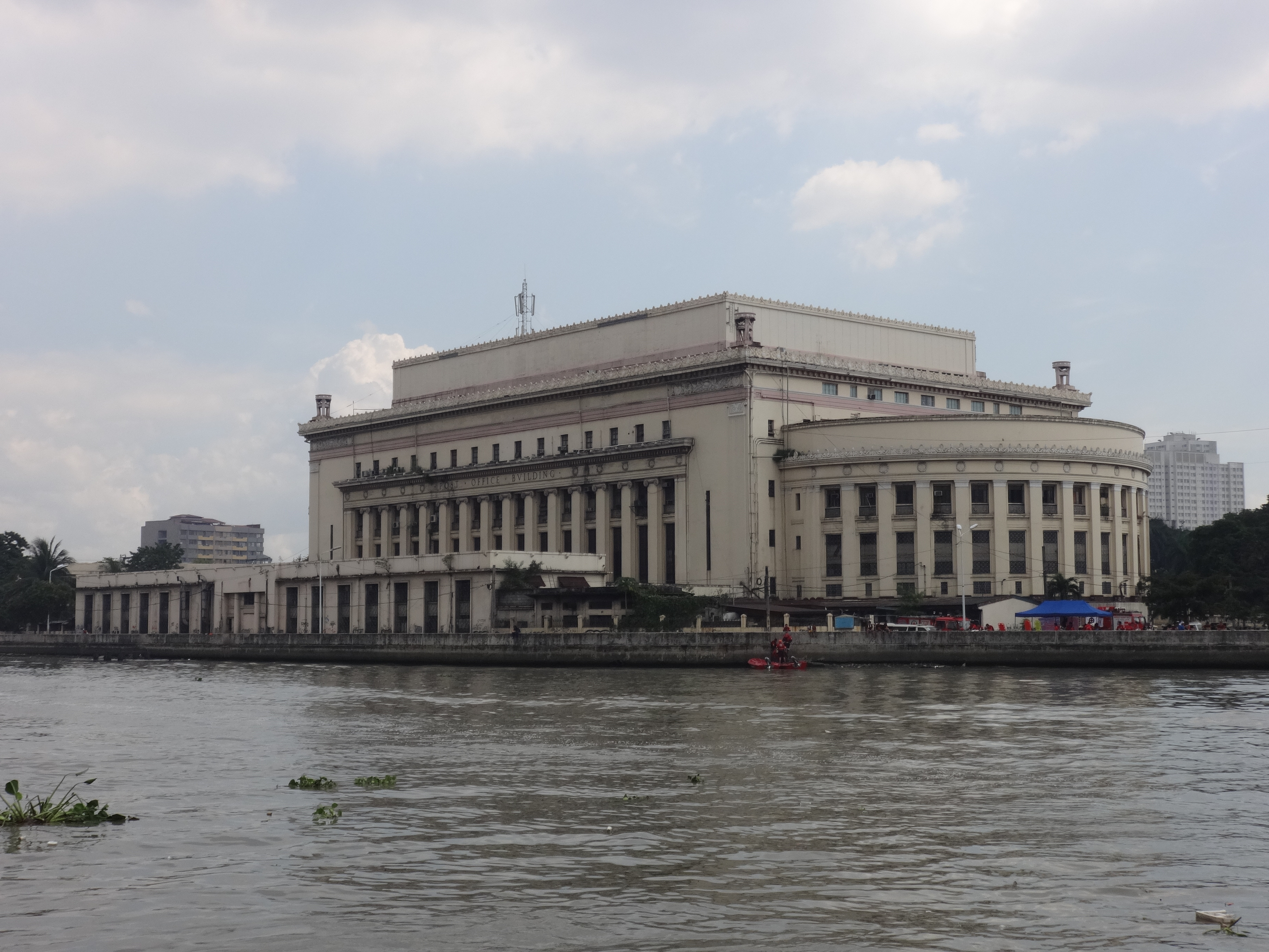 View of Post Office Building from Pasig River in Manila